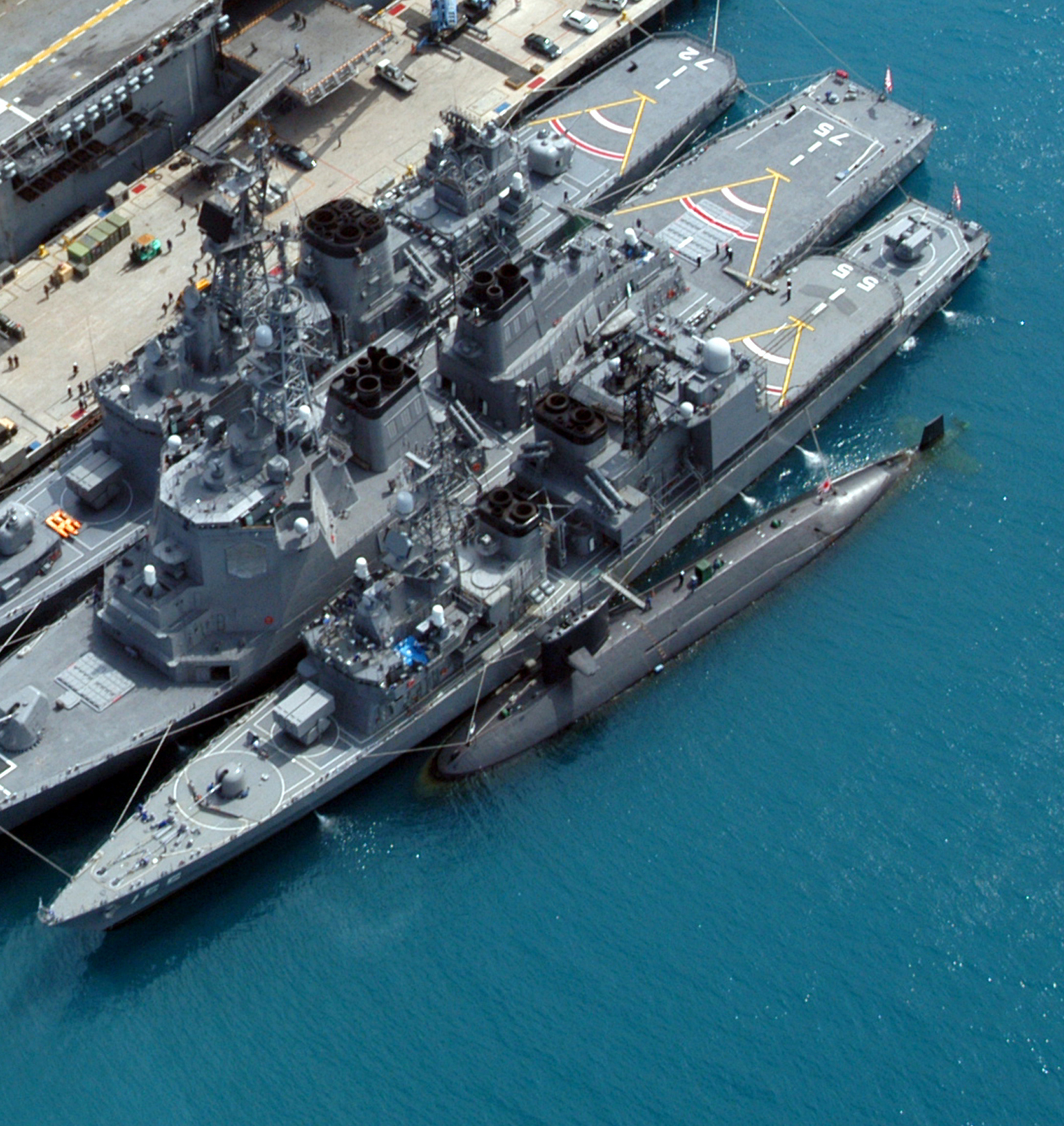 JS Natsusio (SS 584) sits moored with Shimakaze (DDG-172), Myōkō (DDG-175), and Hamagiri (DD-155) at White Beach, Okinawa.